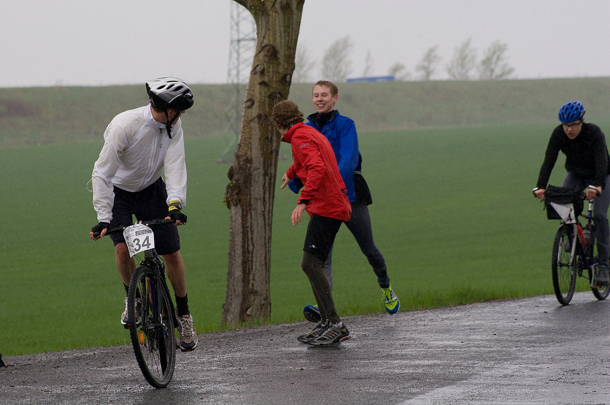 The picture shows a change of the runningposition during the 11th 100km teamduathlon in the year 2006.